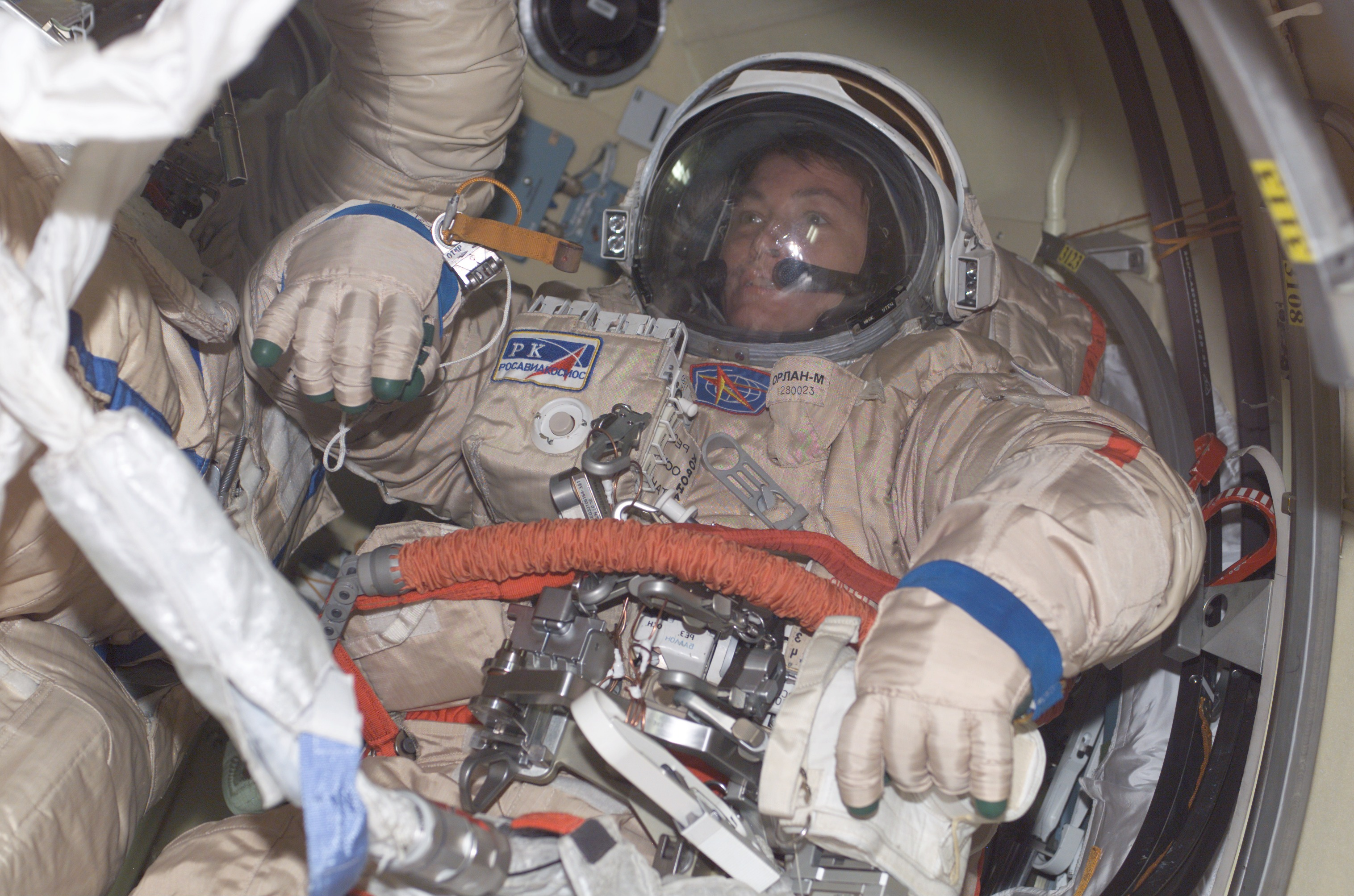 Astronaut Peggy A. Whitson, Expedition Five flight engineer, wears a Russian Orlan spacesuit as she prepares for an upcoming session of extravehicular activity (EVA) from the Pirs docking compartment on the International Space Station (ISS). The spacewalk is scheduled for August 16, 2002, which will be the 42nd spacewalk at the station and the 17th based out of the station. Whitson and cosmonaut Valery G. Korzun, mission commander, will install six debris panels on the Zvezda Service Module. The panels are designed to shield Zvezda from potential space debris impacts.